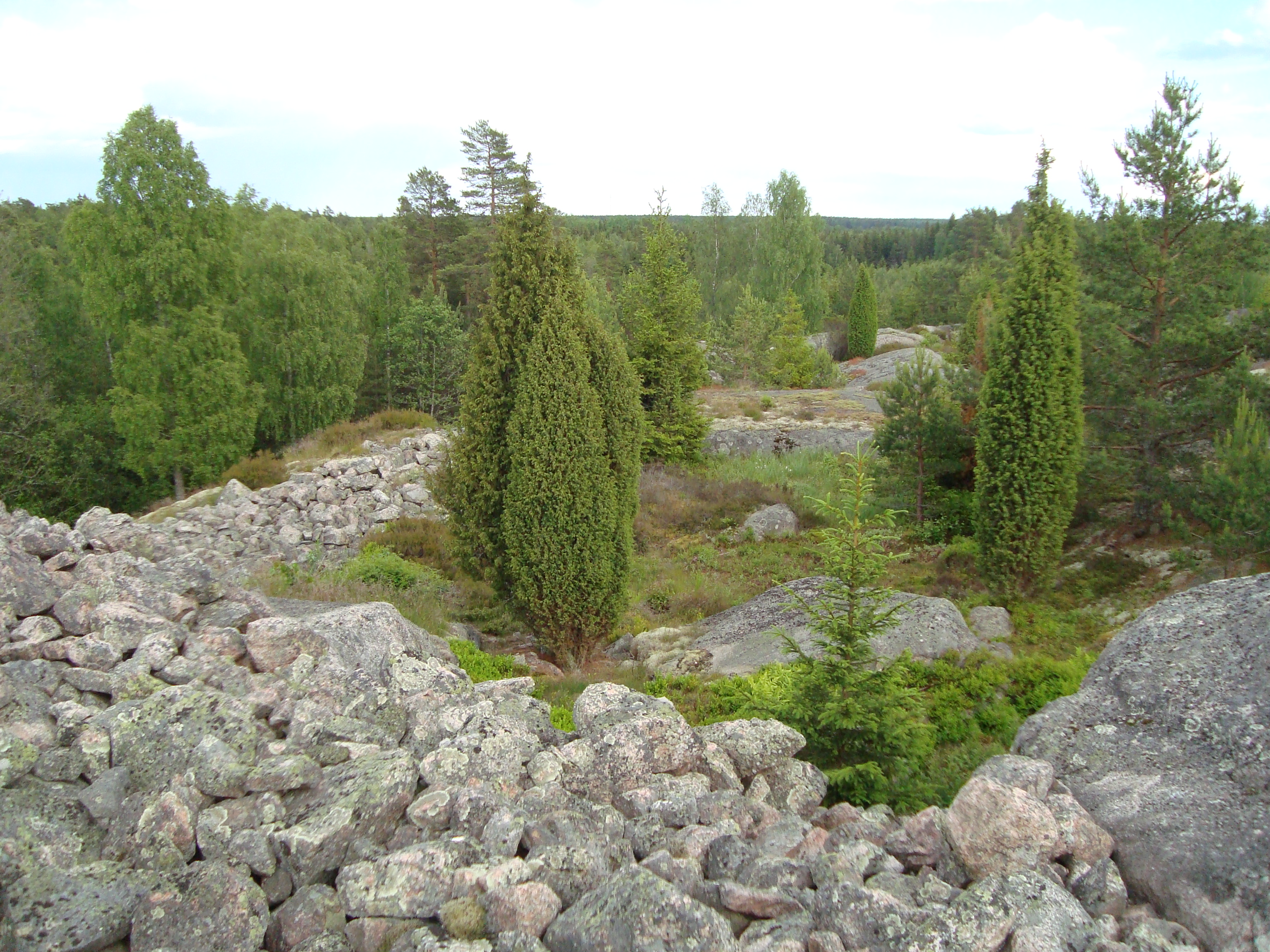 Västerby fornborg (younger iron age fotification of Västerby) a.k.a. Borgberget, Uppsala municipality, Sweden